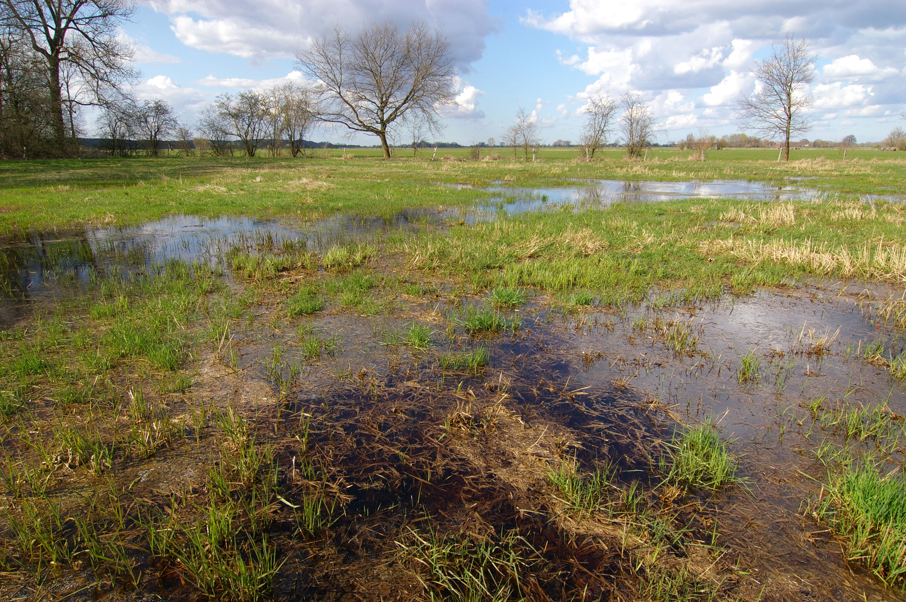 Temporarily water-filled pool in wet meadowland near the Elbe River in northern Germany. Habitat of the threatened Tadpole shrimp species Lepidurus apus.